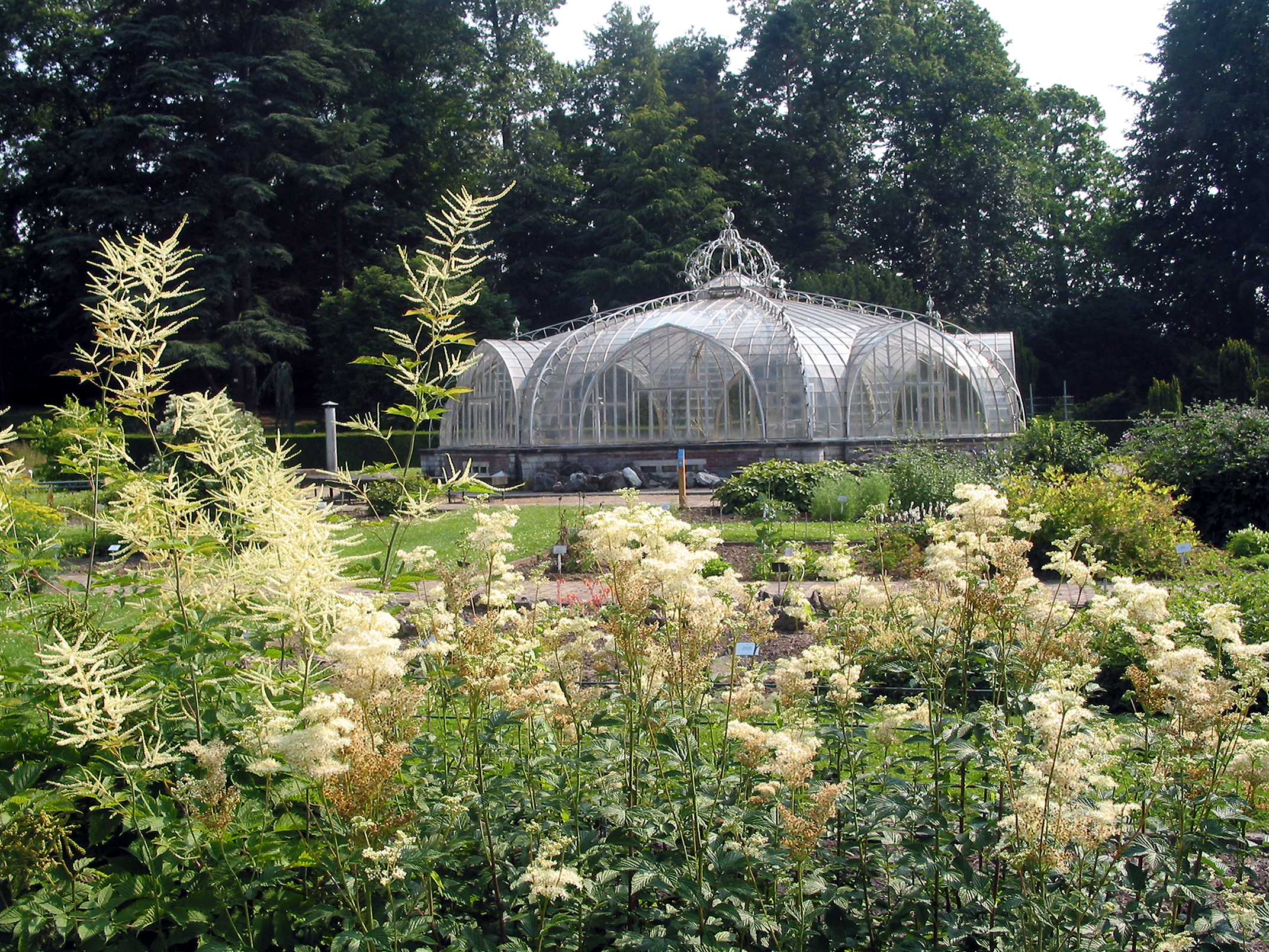 Meise (Belgium), National Garden of Belgium - Balat Greenhouse (1854).